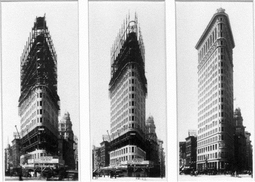 A series of images chronicling the construction of the Flatiron Building, from the New York Times photo archive, credited to the Library of Congress - cropped